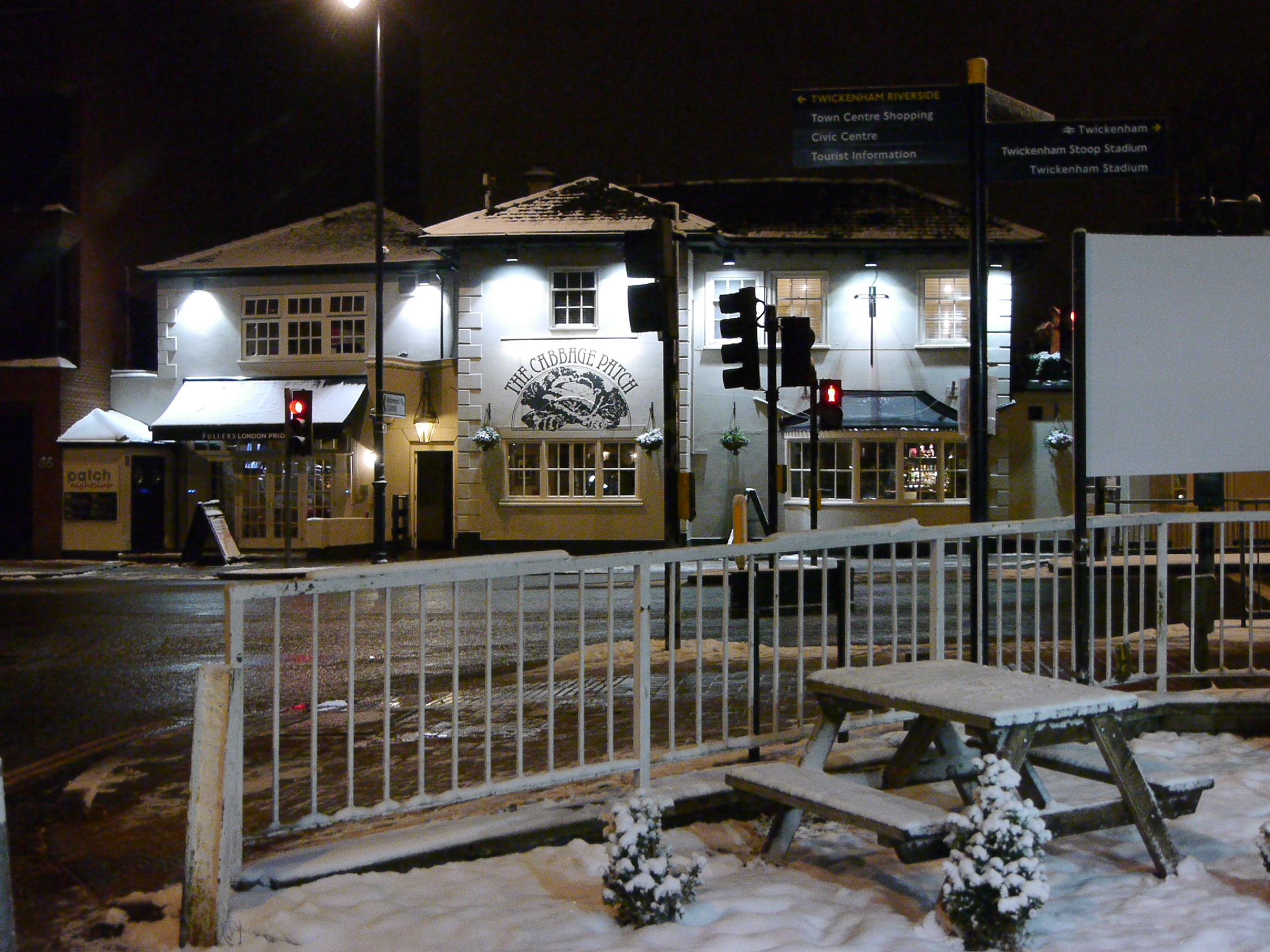 The Cabbage Patch pub in the snow Jan 2013